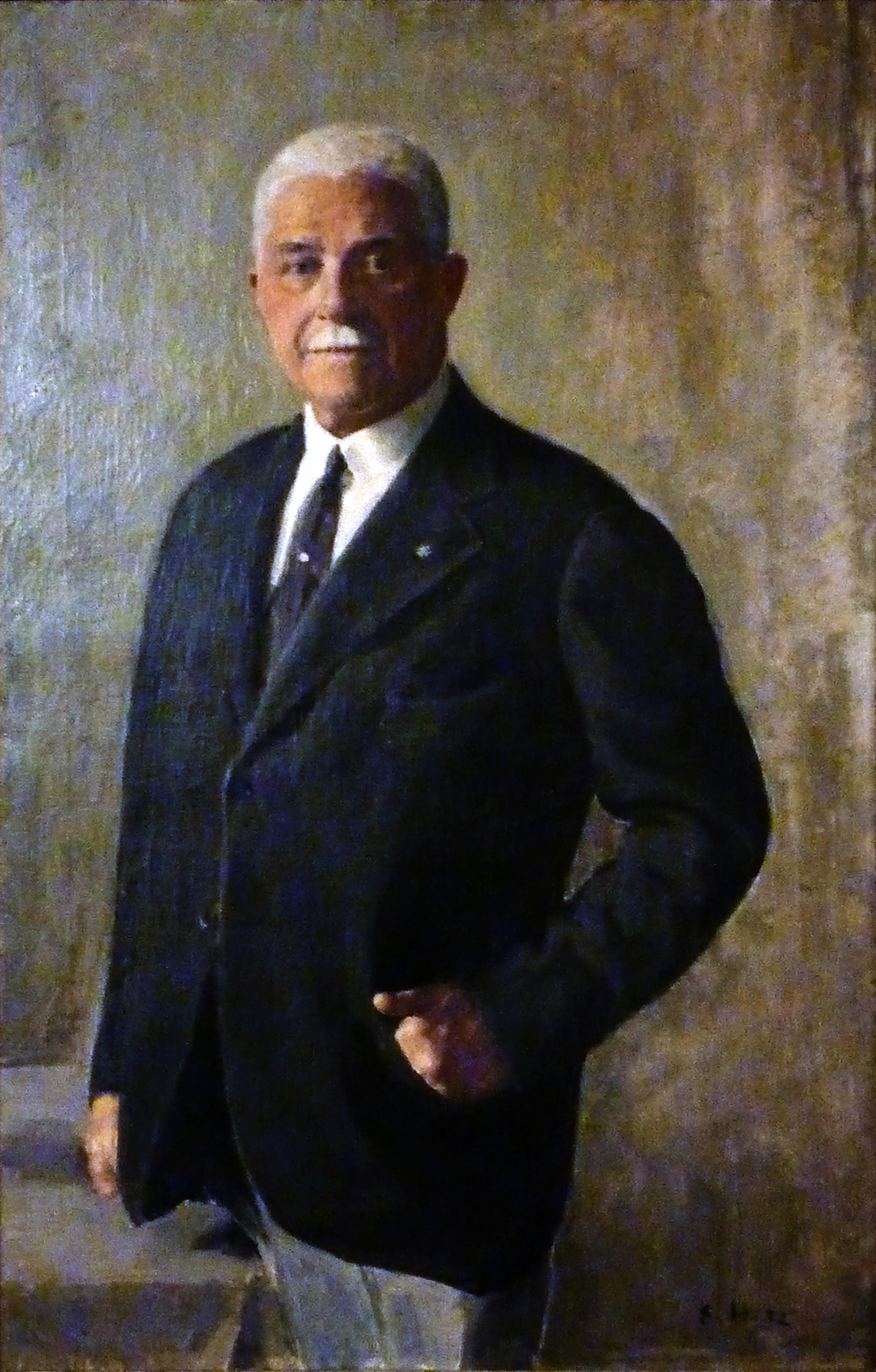 Portrait of Maximilian Egon II, Prince of Fürstenberg (1863-1941), in the historic market hall of Freiburg